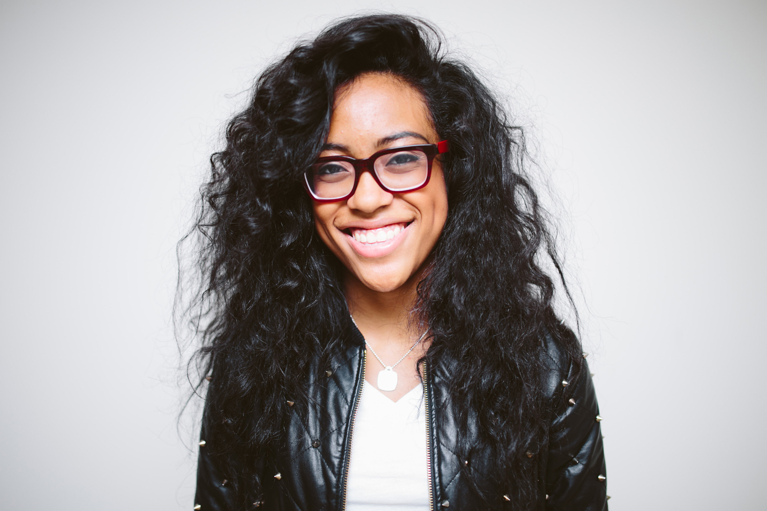 American Idol Finalist (season 13) Malaya Watson.